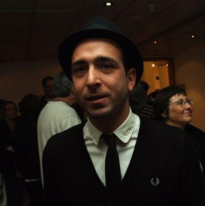 writer Ithamar Ben Canaan in Tel Aviv art exhbition